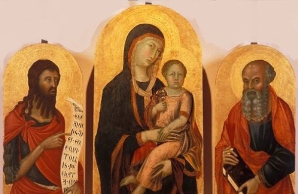 Niccolo di Segna, Madonna in trono tra s. Giovanni Battista e s. Giovanni Evangelista, Museo Diocesano di Pienza